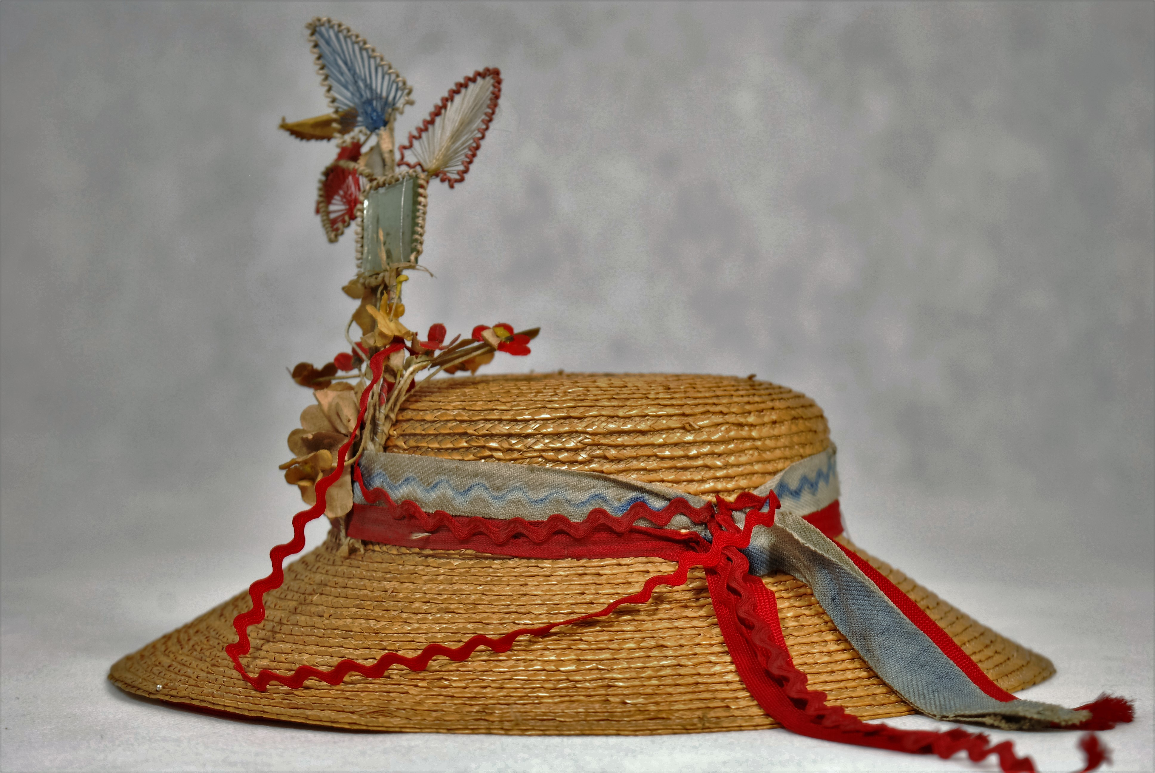 Collection of traditional and folk costumes, Ethnographic collection of Maramureş Museum in Sighet, Romania.